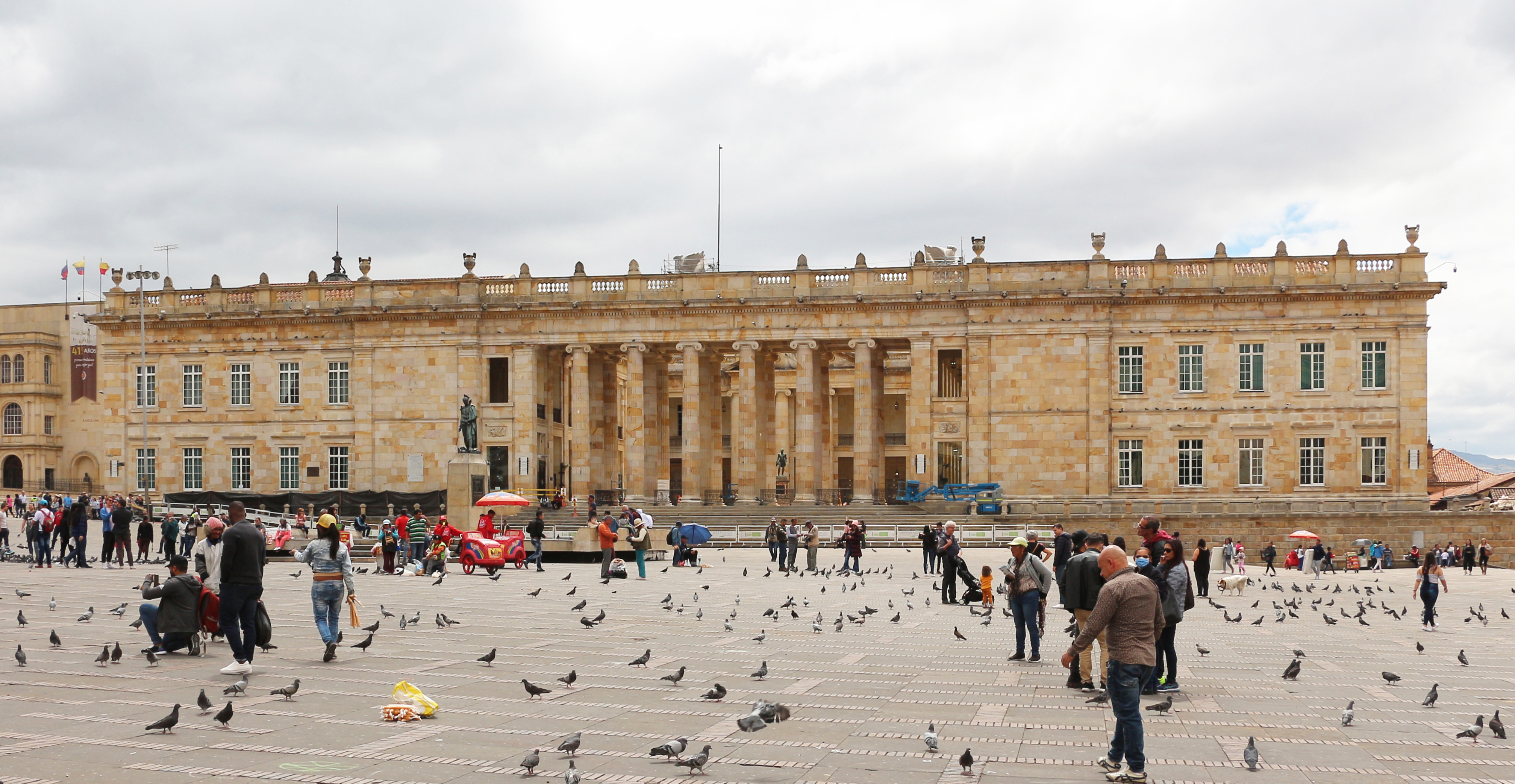 Capitolio Nacional de Colombia, Bogotá, Colombia